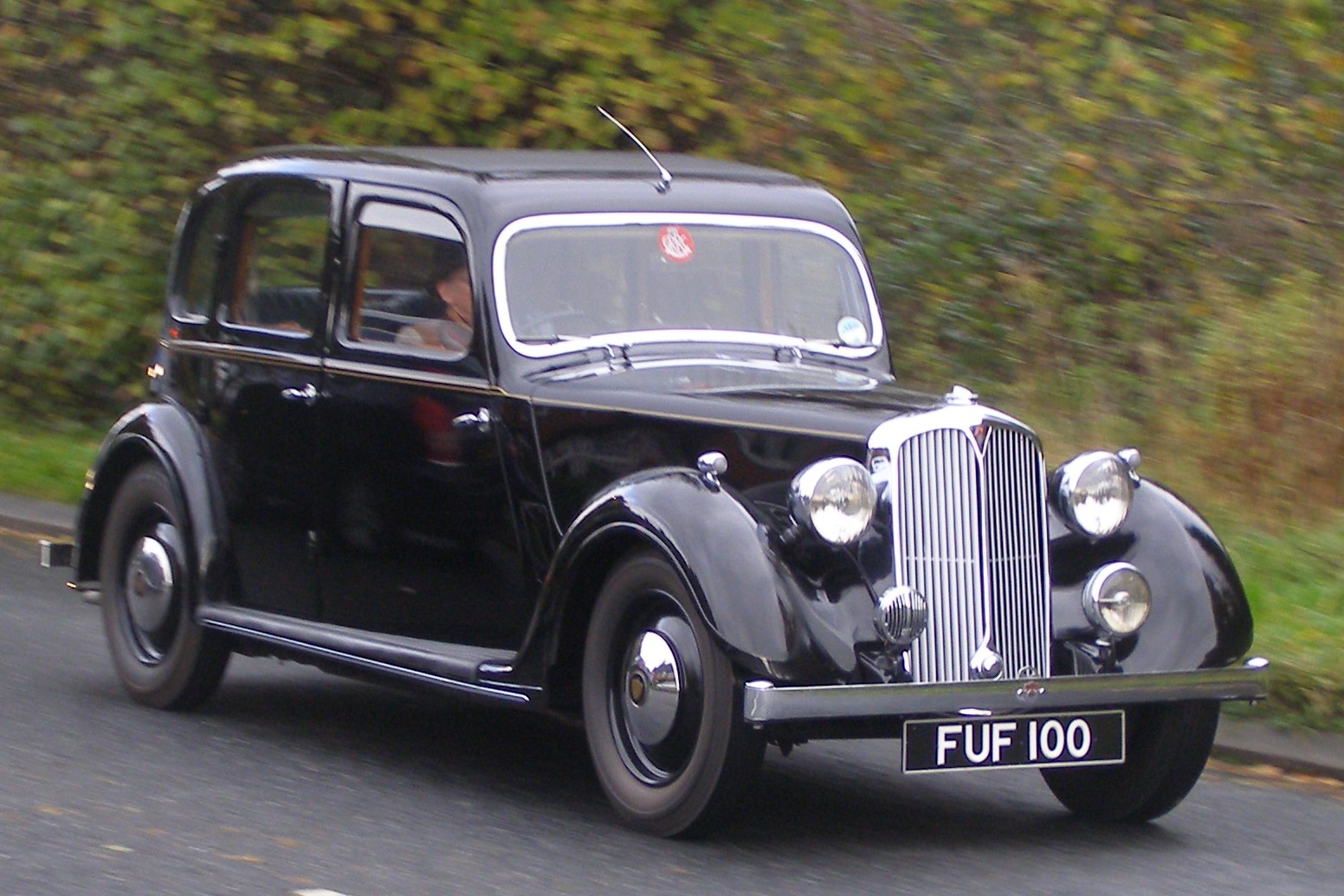 FUF100 is a 1939-built Rover 12 it was following the course of the London to Brighton Veteran Car Run at Handcross, West Sussex. (DVLA) First registered 2 February 1939, 1496cc